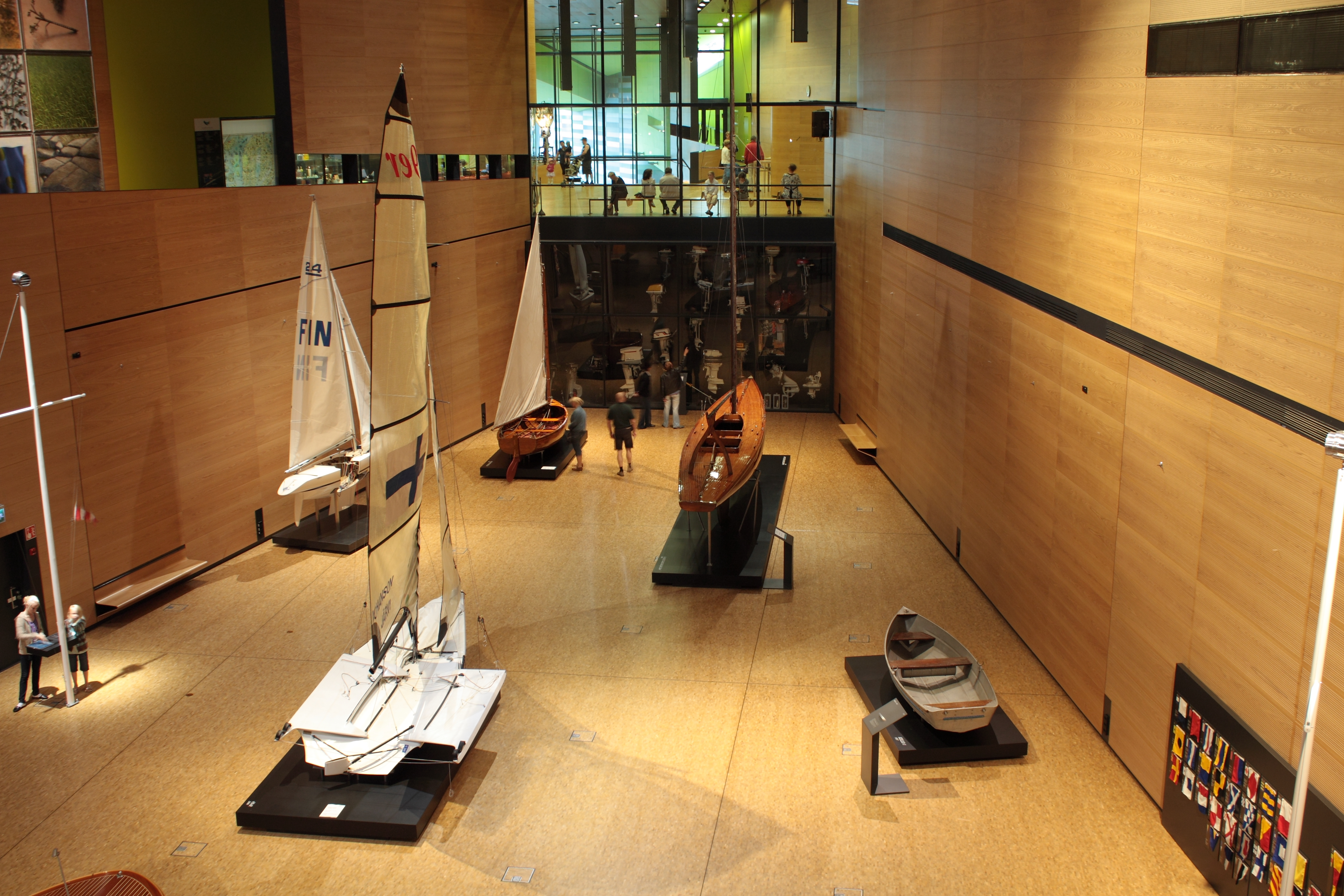 Boat Hall in Maritime Centre Vellamo on Kotka, Finland.